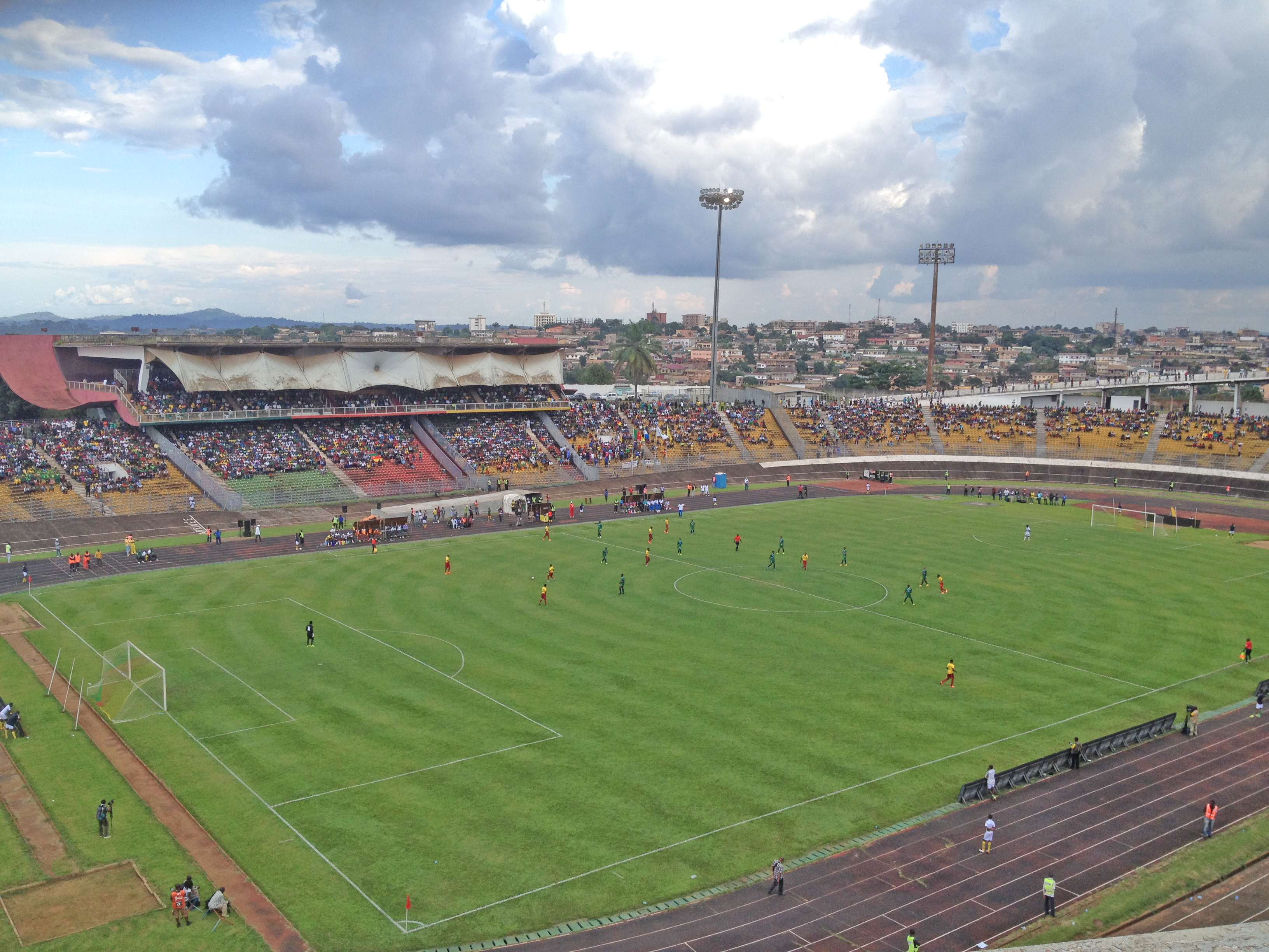 Ahmadou Ahidjo Stadion in Yaounde during a match between the national football team of Cameroon with the national football team of Sierra Leone (qualifications match for the African Cup of Nations 2015).